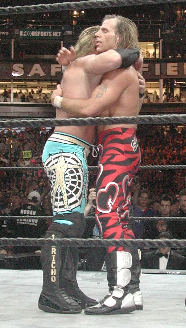 Chris Jericho and Shawn Michaels at WrestleMania XIX. Safeco Field, Seattle, WA, March 30en:2003. Taken by me.